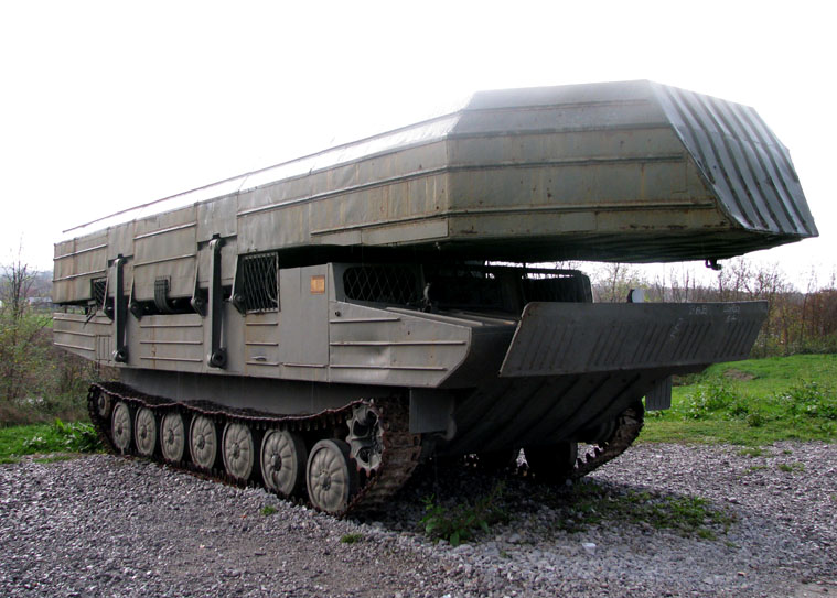 Amphibious ferry GSP (Turanj, Karlovac, Croatia)